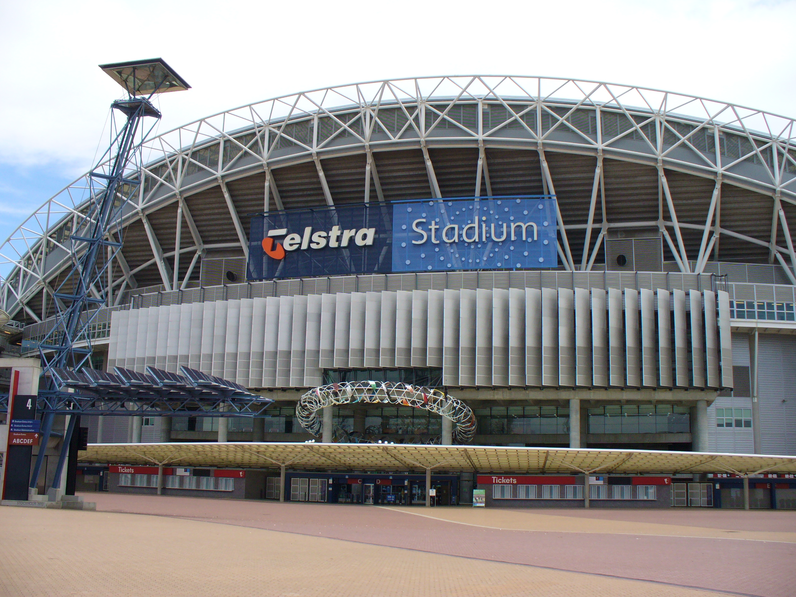 Stadium Australia (otherwise known as Telstra Stadium), Sydney with sculpture above the entrance Feathers and Skies (2000) by Neil Dawson from New Zealand